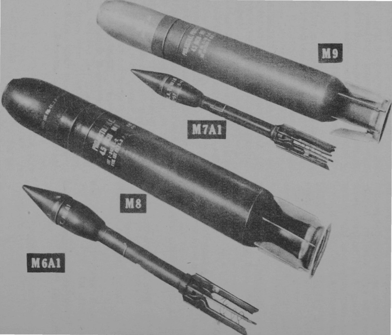 M6A1, M7A1, M8, M9 Rockets